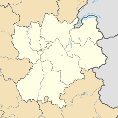 Blank administrative map of Rhône-Alpes for geo-location purpose, with regions and departements distinguished. Approximate scale : 1:3,000,000 Equirectangular projection, WGS84 datum Central meridian: 5° 25' E True scale parallel: 45° 22' N Geographic limits of the map : Left : 3° 17' E Right : 7° 34' E Top : 46° 51' N Bottom : 43° 52' N